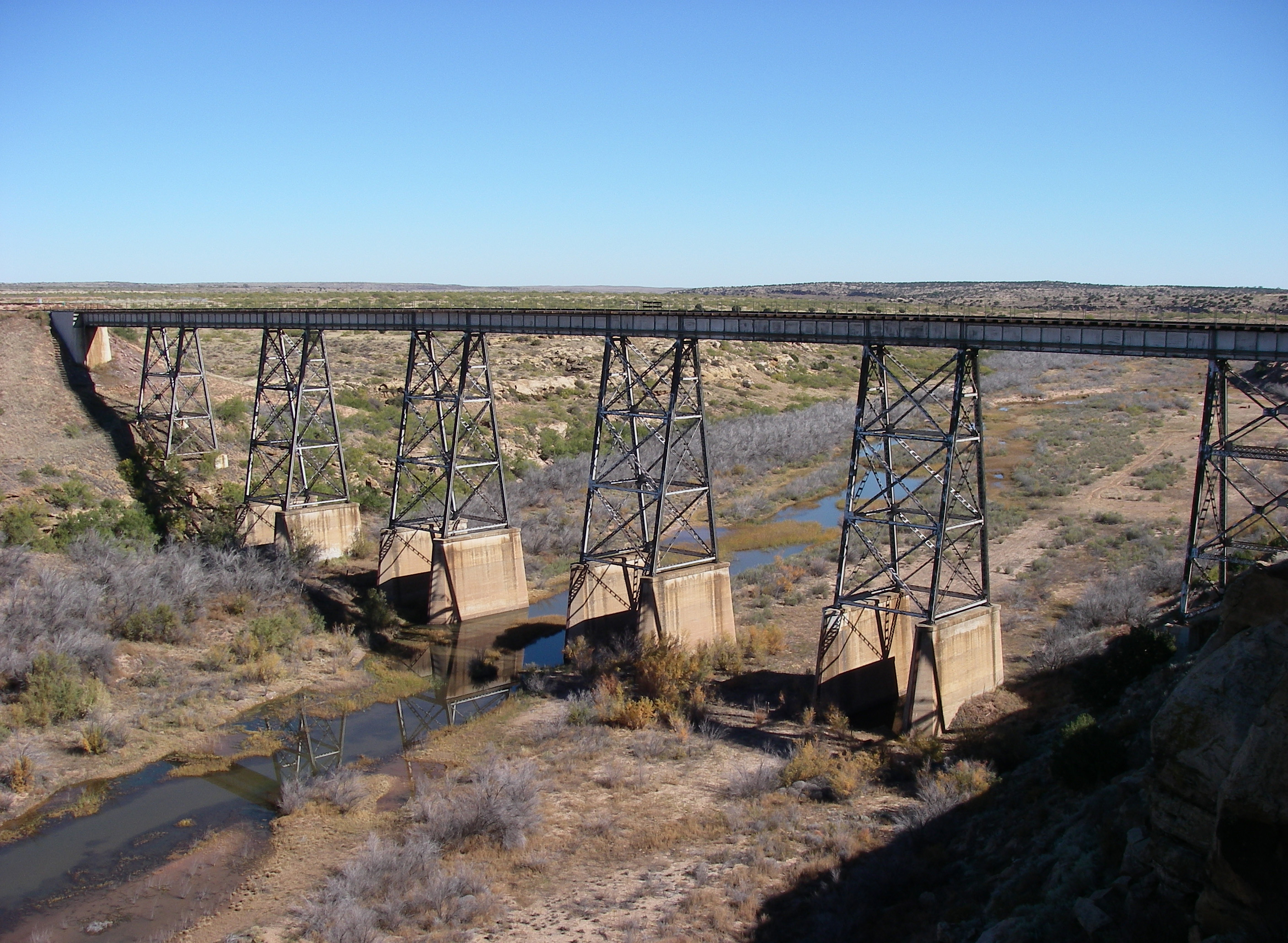 Railroad bridge spanning the Canadian River valley south of Logan, New Mexico. This part of the Canadian River stopped flowing the day they closed the Ute Dam in 1963. In the past the river must have flowed strong enough to carve this magnificent canyon. Those days are over, however, as the Canadian River has become a valley without flowing water.